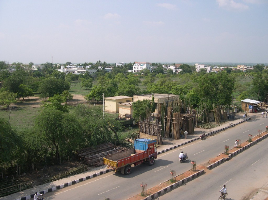 Skyline of Sindhanur City.